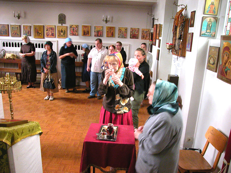 The faithful partaking of zapivka, blessed bread and wine which are consumed after receiving Holy Communion. Holy Protection Church, Düsseldorf.